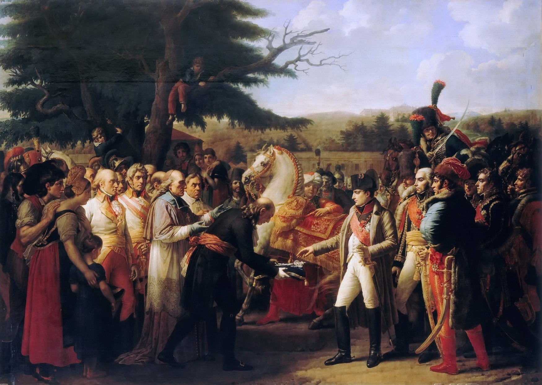 General Geraud Christophe Michel Duroc (1772-1813), Duke of Frioul; Roustam (1780-1845), Mameluke of Napoleon